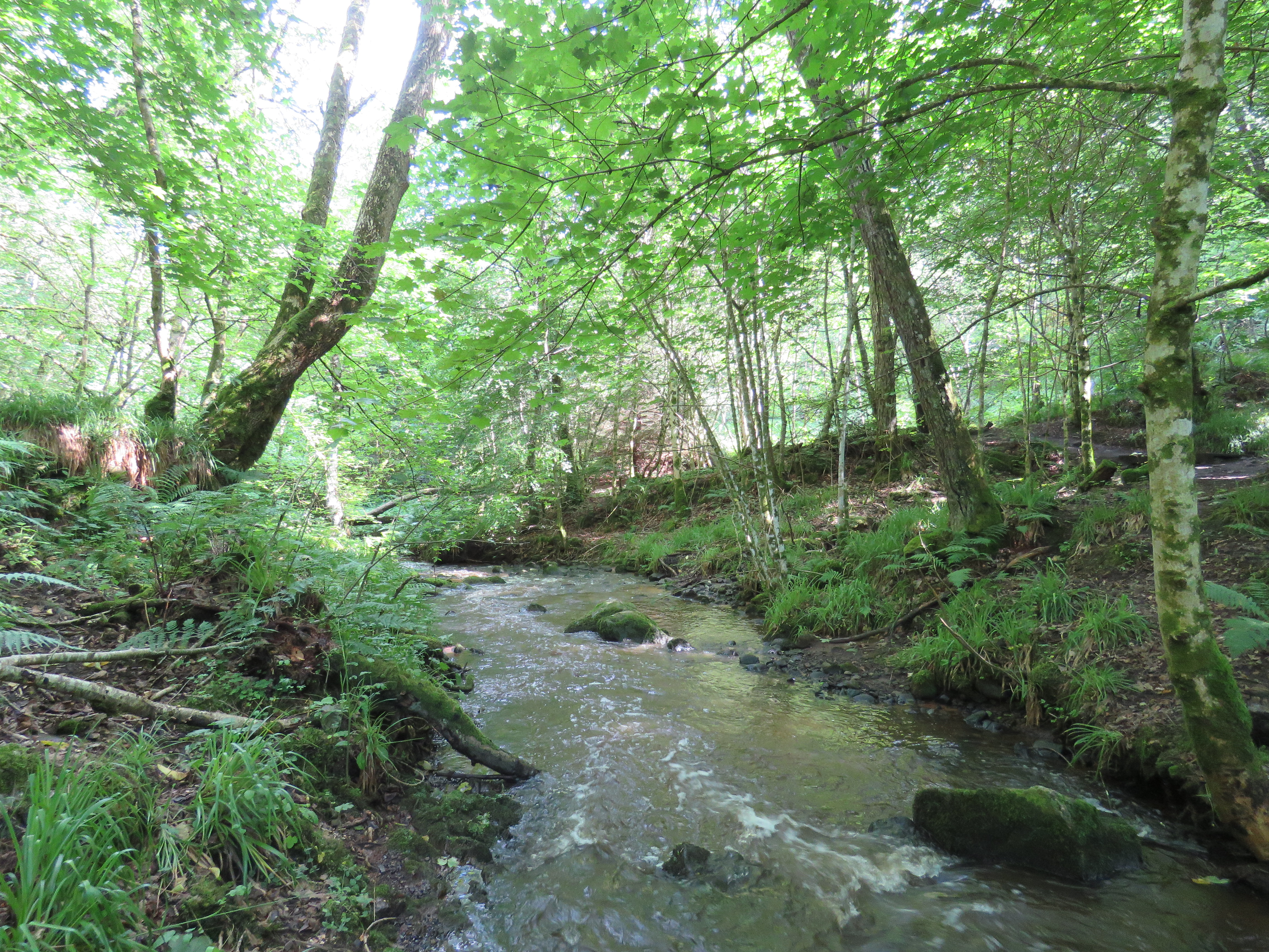 rspb Fairy Glen, Scotland